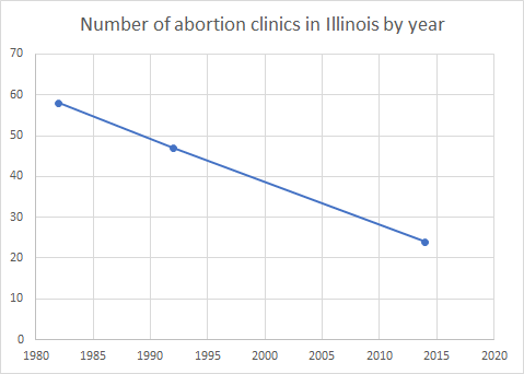 Number of abortion clinics in Illinois by year using data from references on